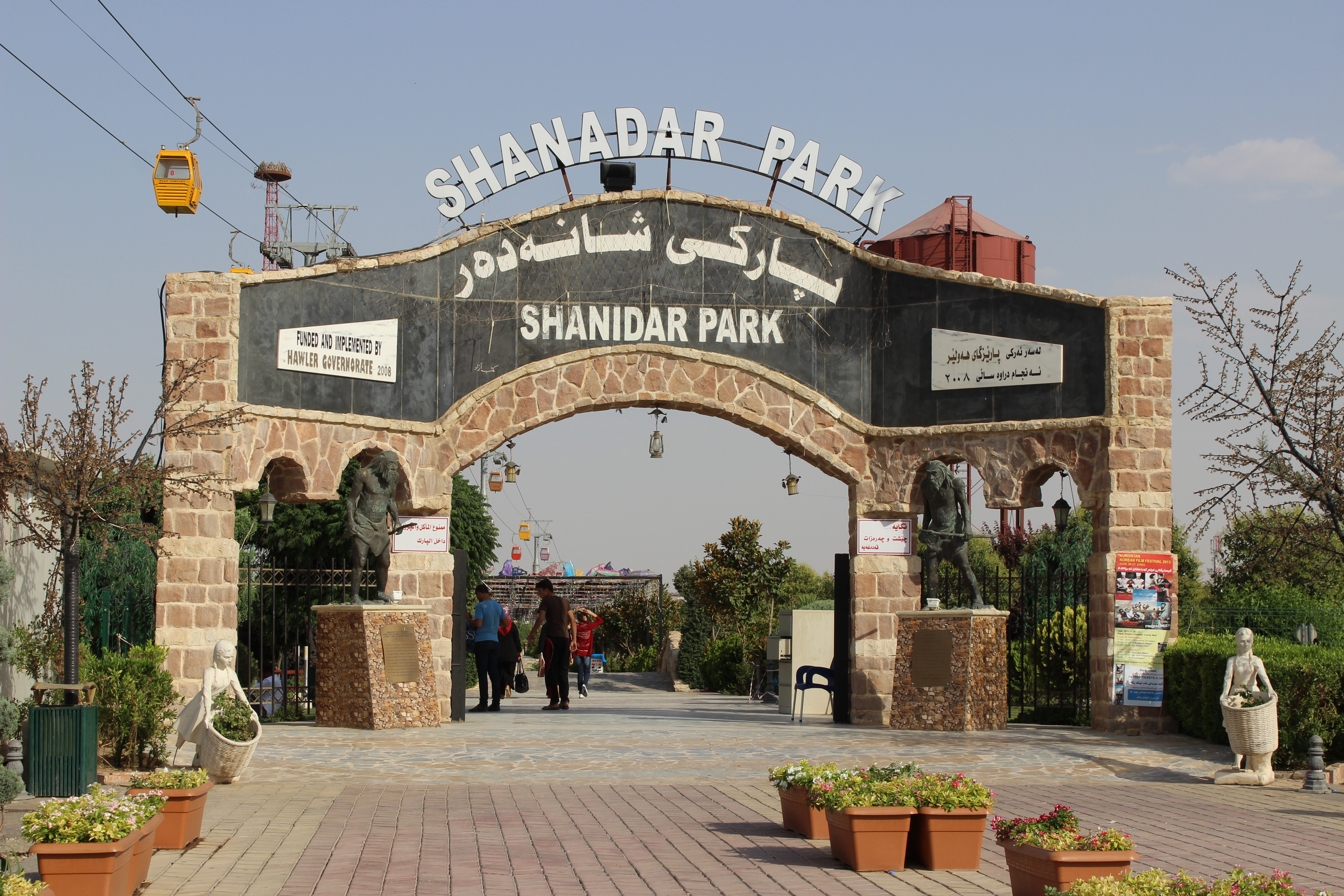 shanider park in iraqi kurdistan - erbilKurdî: پاڕکی شانەدەر لە شاری هەولێری پایتەختی هەرێمی کوردستان